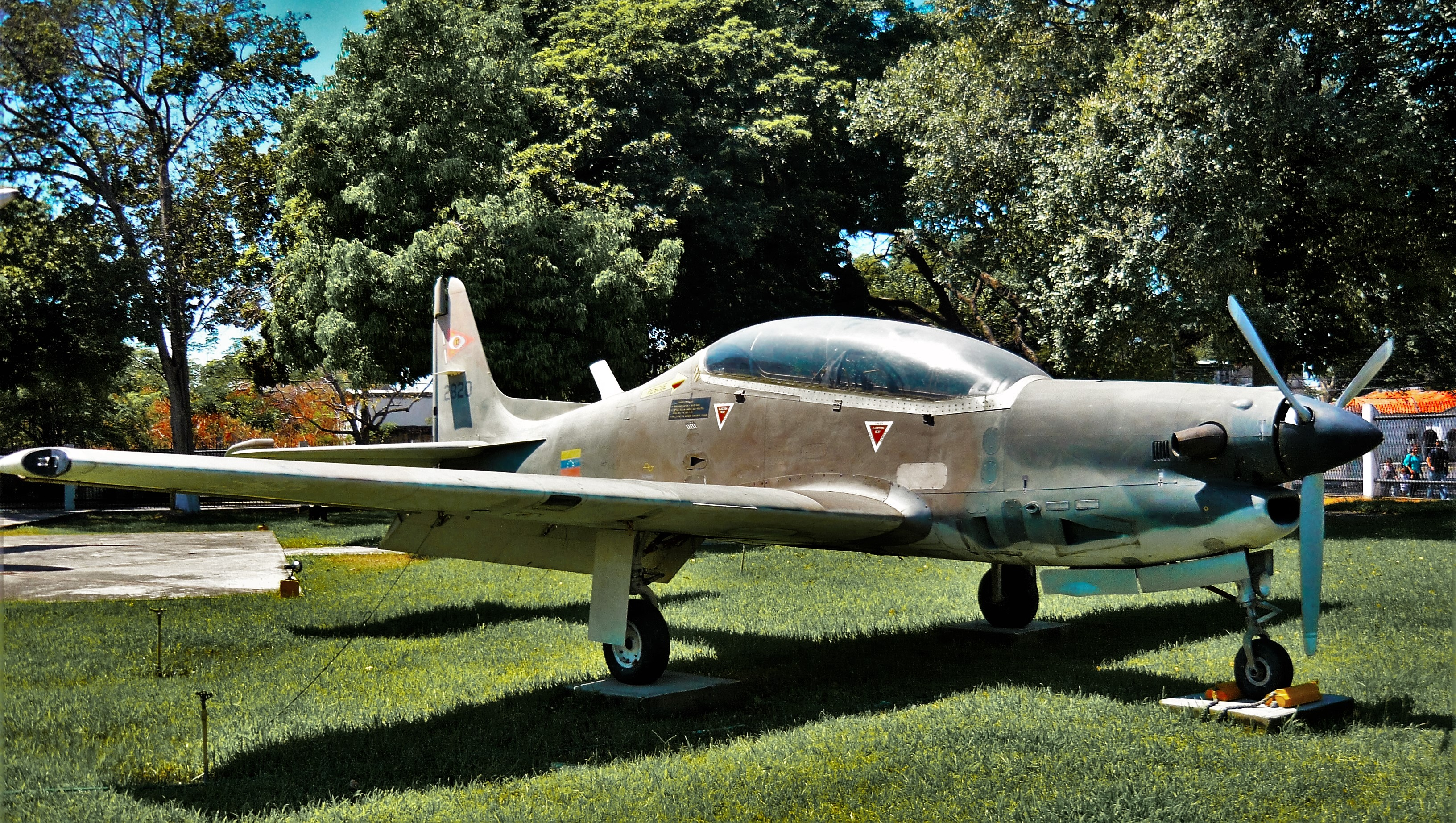 Tucano AT-27 AMBV exhibited in the Aeronautical Museum Luis Hernán Paredes de Maracay